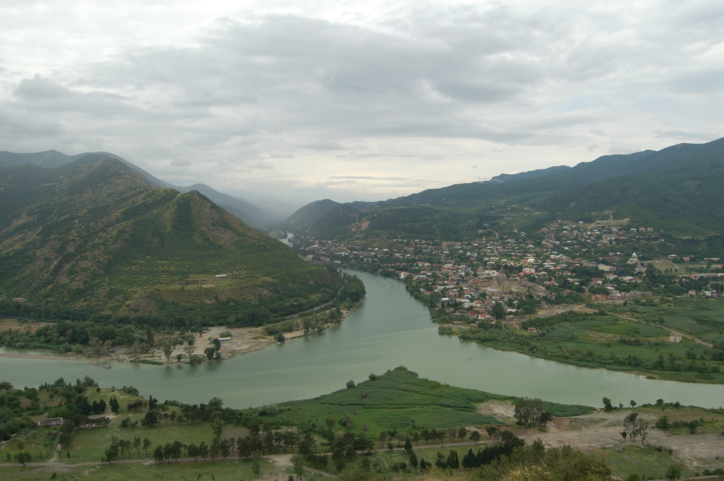 Looking north towards the cloudy Caucasus mountains. Confluence of the Aragvi and Kura (Mtkvari) rivers, Mtskheta, Georgia.